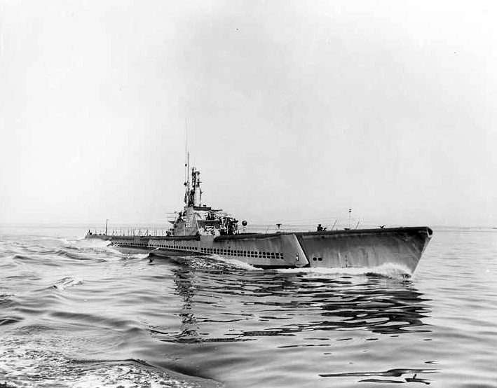 USS_Crevalle; Crevalle (SS-291), starboard view under way, circa 1944. U.S. Navy photo, courtesy of web site.